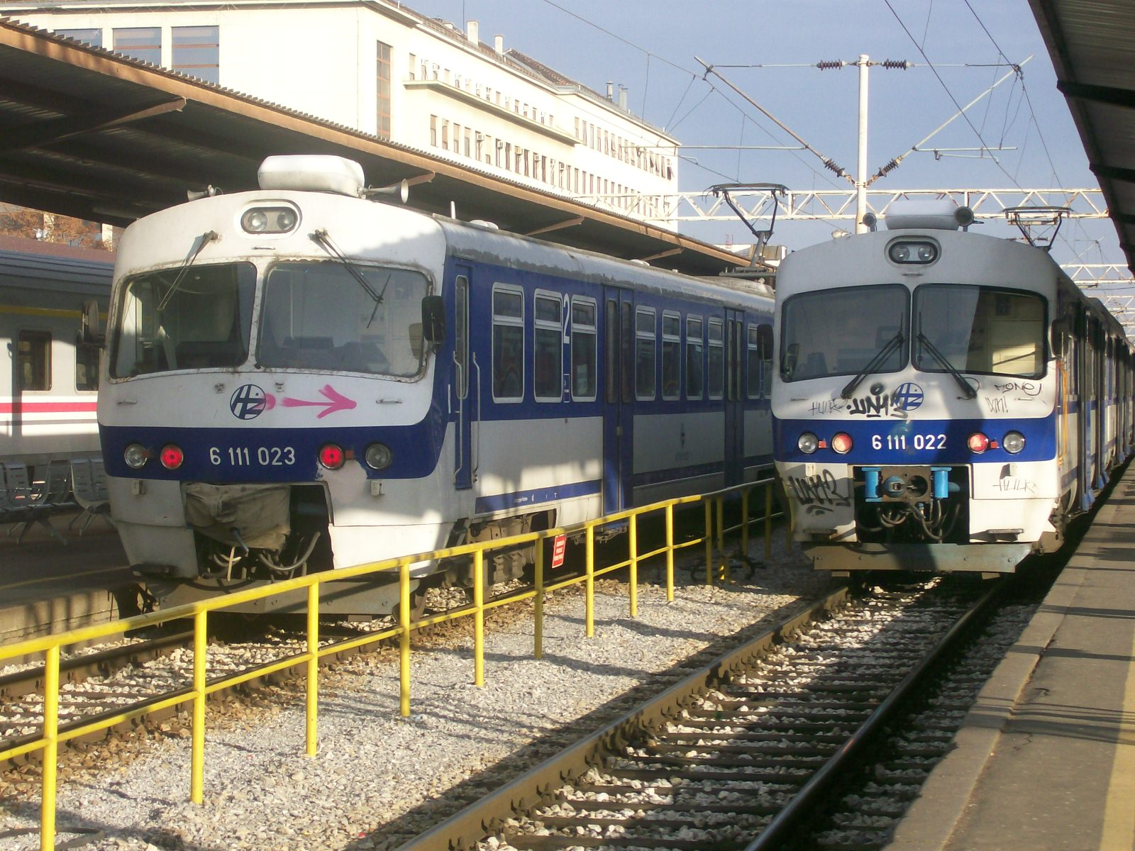 Croatian 6111 series EMUs on Zagreb Main Station